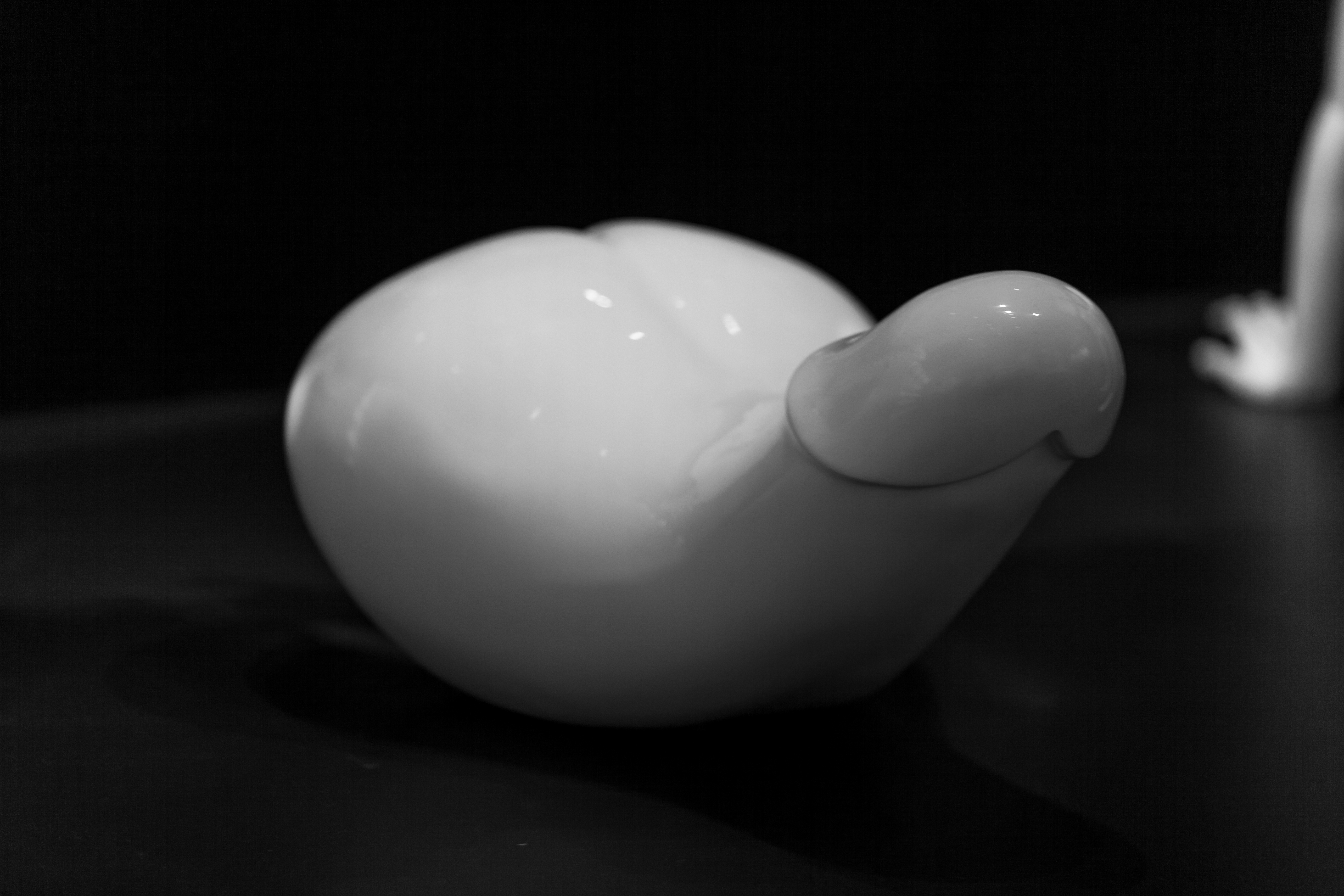 displayed at Stanley Kubrick: The Exhibit, TIFF, Canada.